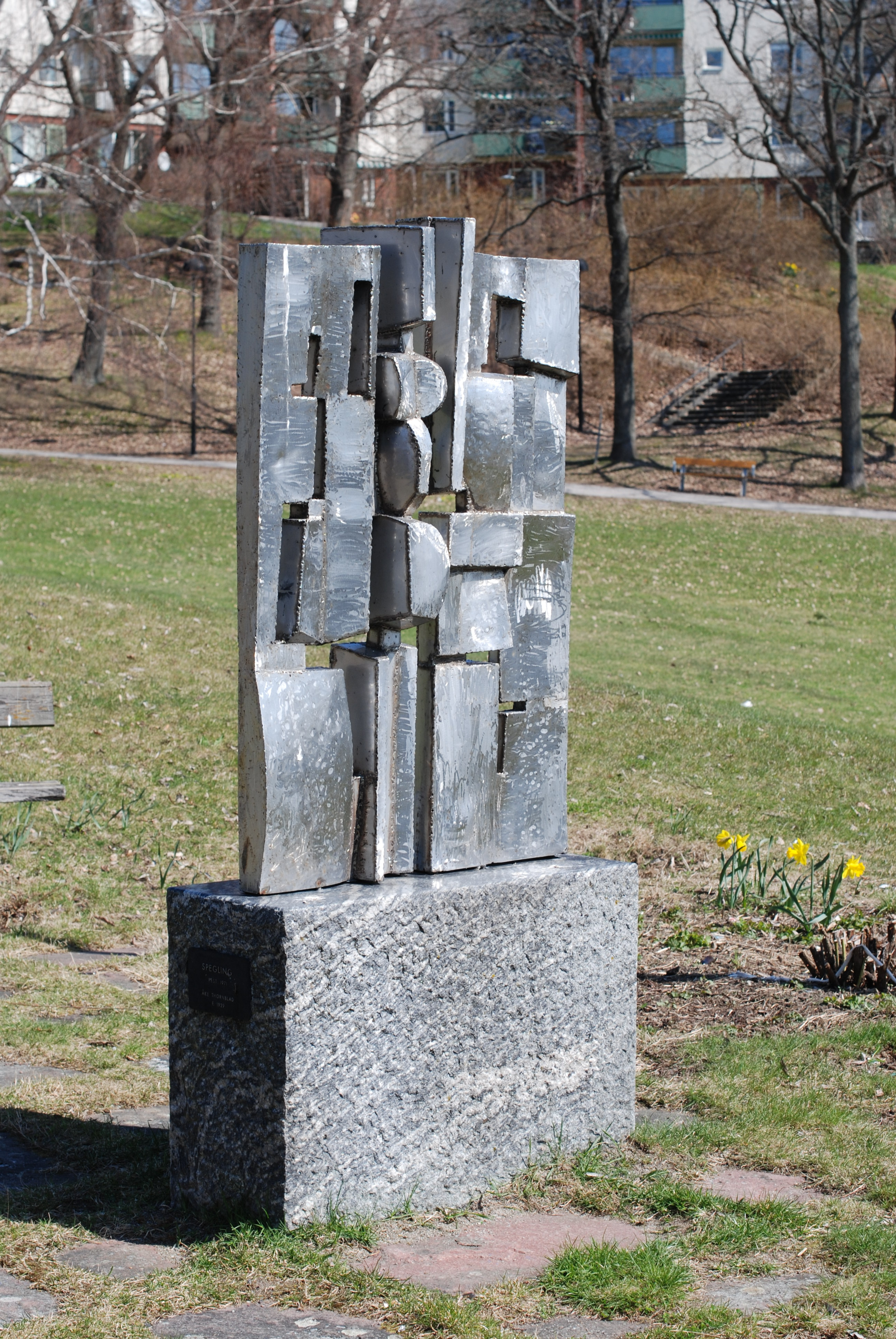 Åke Thornblad´s Spegling (Mirroring), 1971, stainless steel, Hässelby strand, Stockholm, Sweden